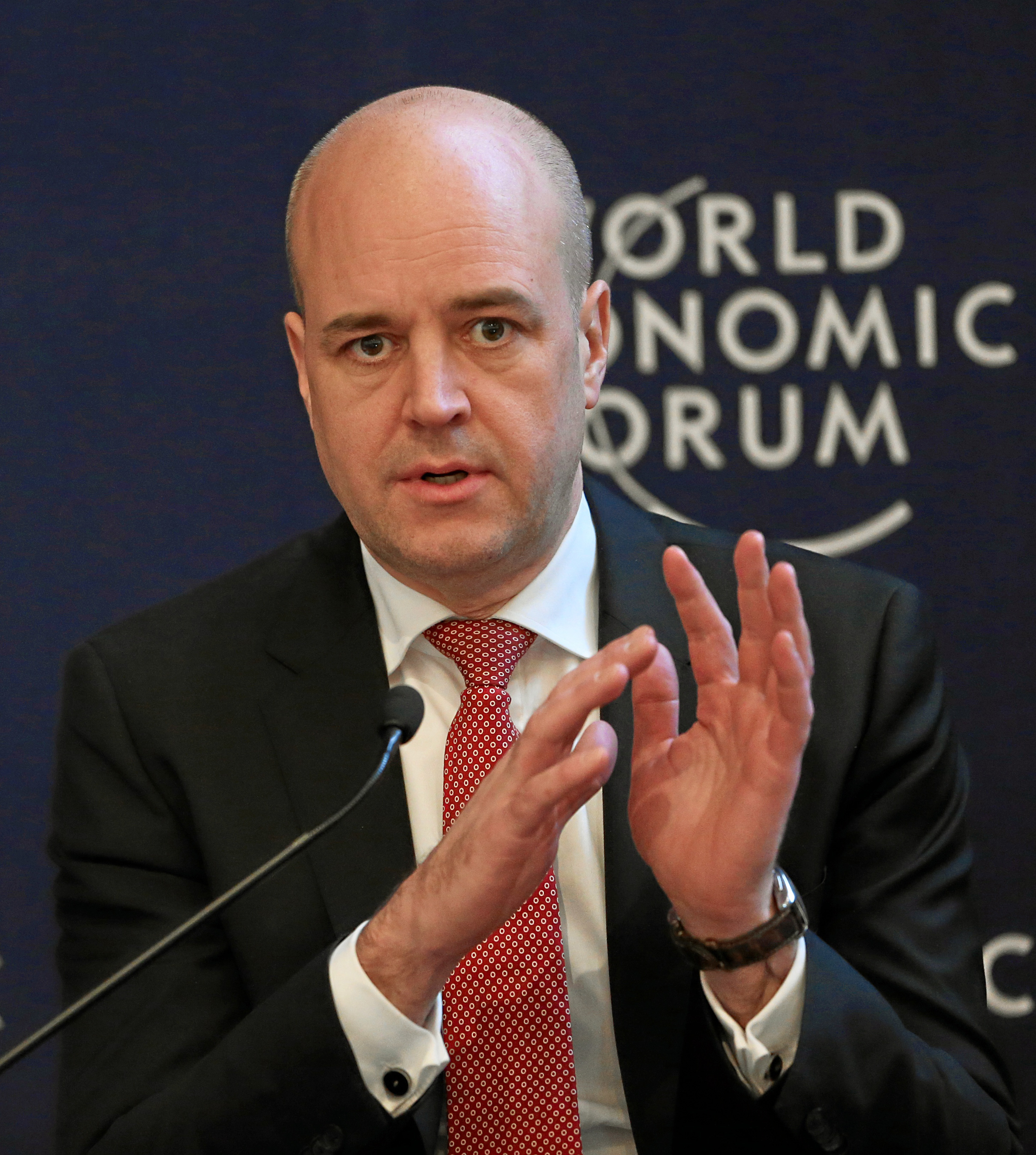 DAVOS/SWITZERLAND, 24JAN13 - Fredrik Reinfeldt, Prime Minister of Sweden, gestures during the session 'Unconventional Energy- Sustaining Natural Resources' at the Annual Meeting 2013 of the World Economic Forum in Davos, Switzerland, January 24, 2013. . Copyright by World Economic Forum. . Moritz Hager